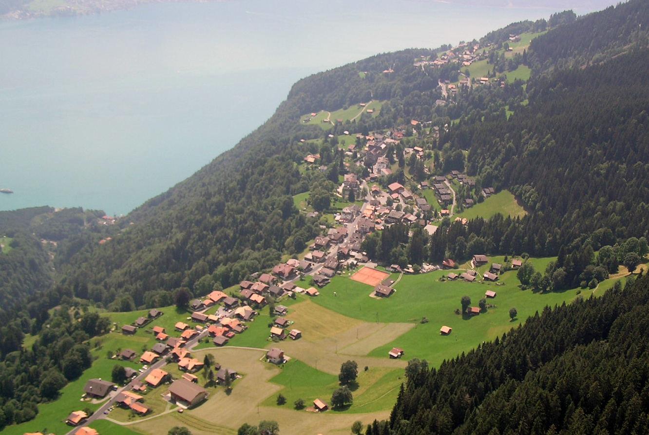 Aerial view of Beatenberg in Switzerland